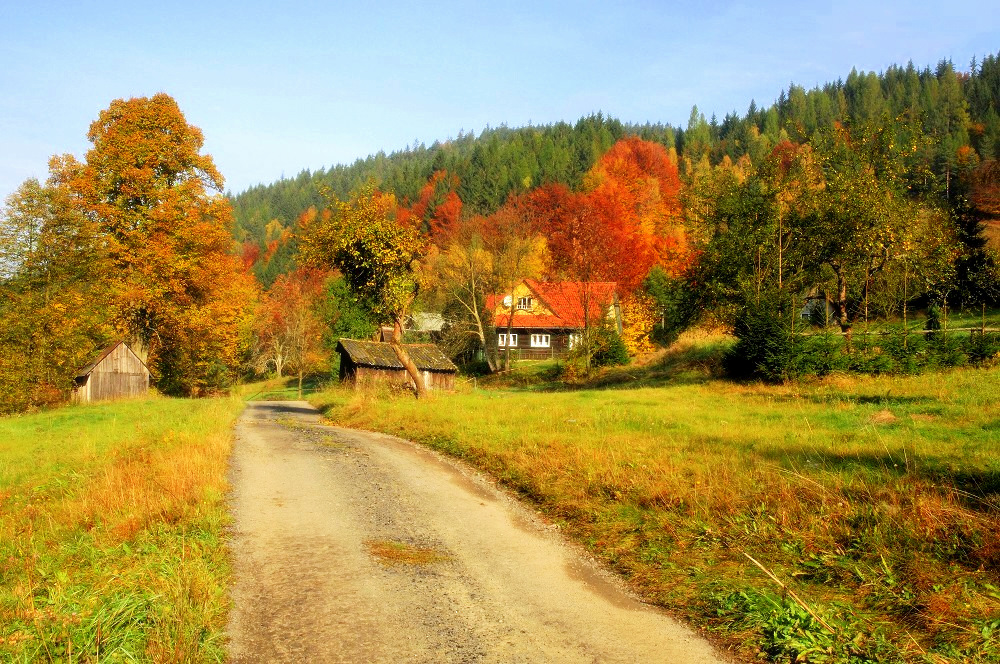 Hřívová, a part of Valašská Bystřice.